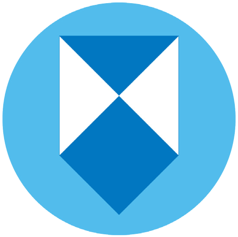 Logo of the Association of National Committees of the Blue Shield (ANCBS)